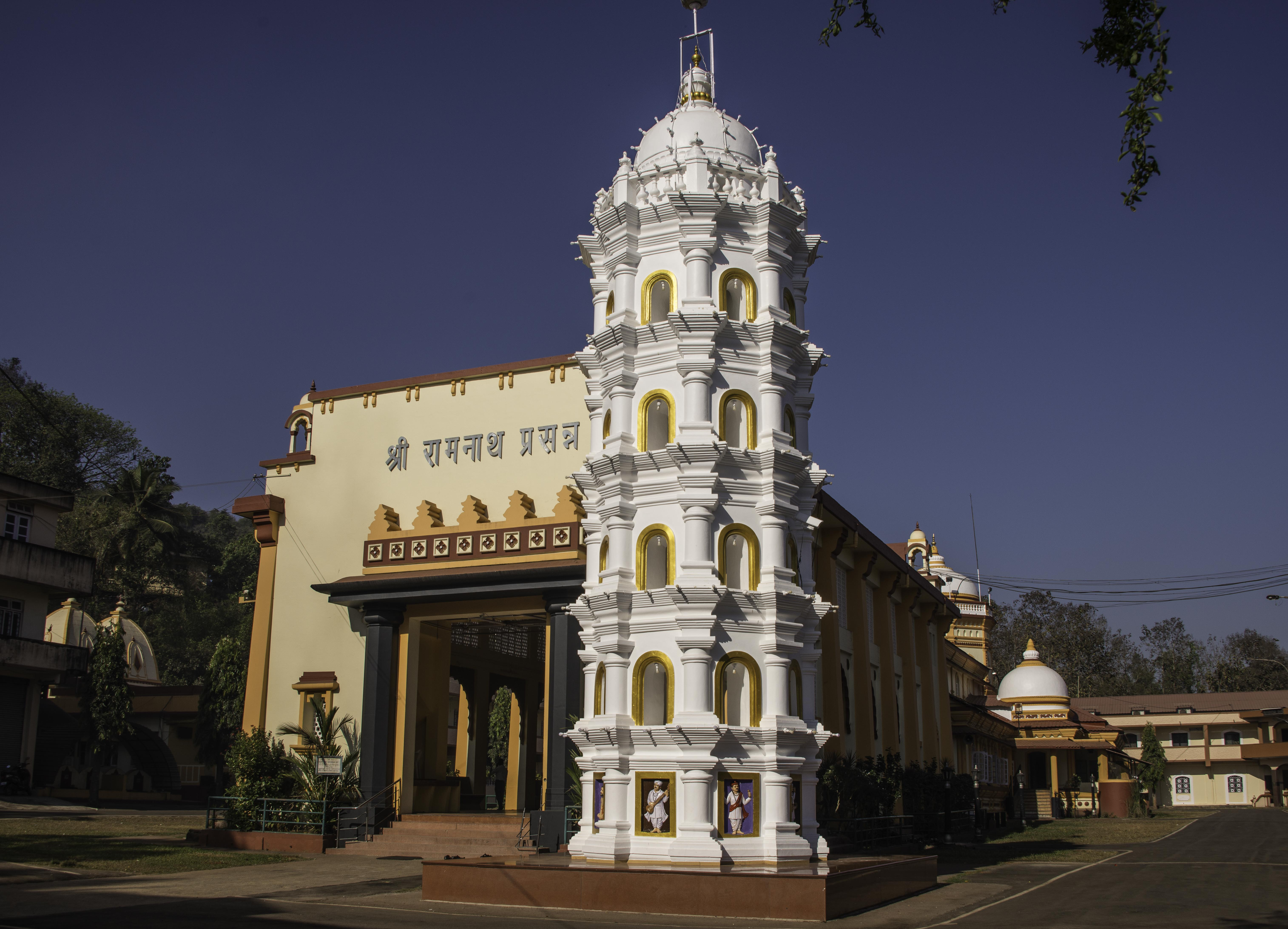 Main entrance of the temple and the majestic Deepa stambha